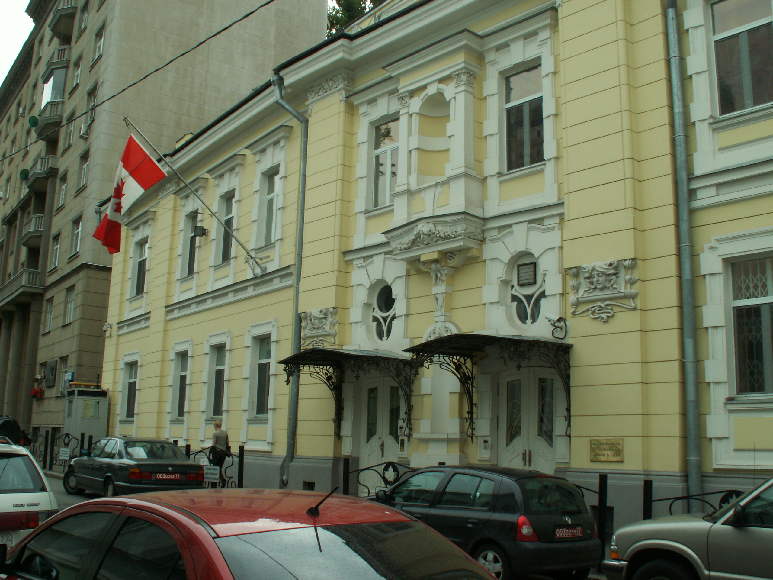 Embassy of Canada: 23 Starokonyushenny Pereulok, Moscow, Russia